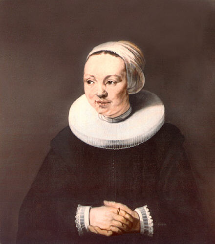 Formerly seen as portrait of Adriaantje Hollaer (1610-1693) by Rembrandt. Marriage portrait, which was pictured on the Dutch 100-guilder banknote, printed from 1947-1950. Pendant of File:Rembrandt 212.jpg